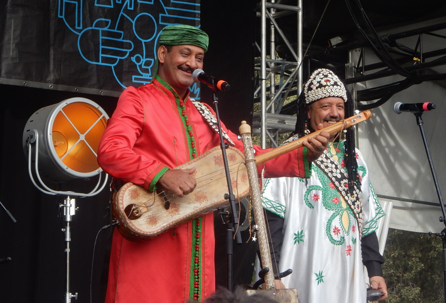 Gnawa master Hamid El Kasri performing in Hackney, Adelaide, Australia